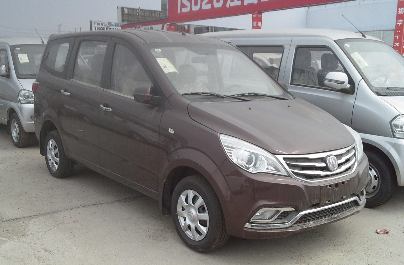 Weiwang M30 photographed in Zhengzhou, Henan province, China.